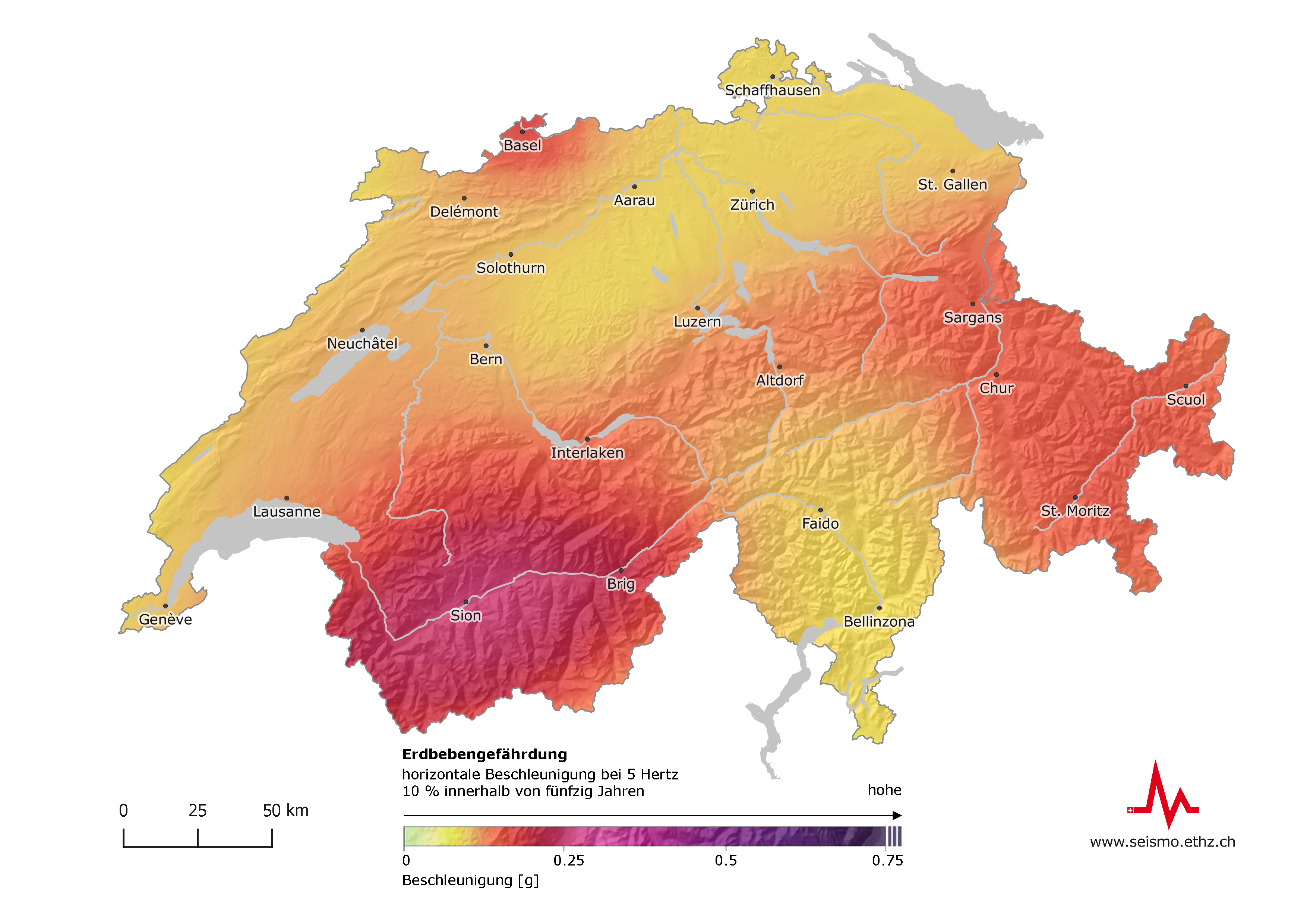 seismic hazard map of Switzerland